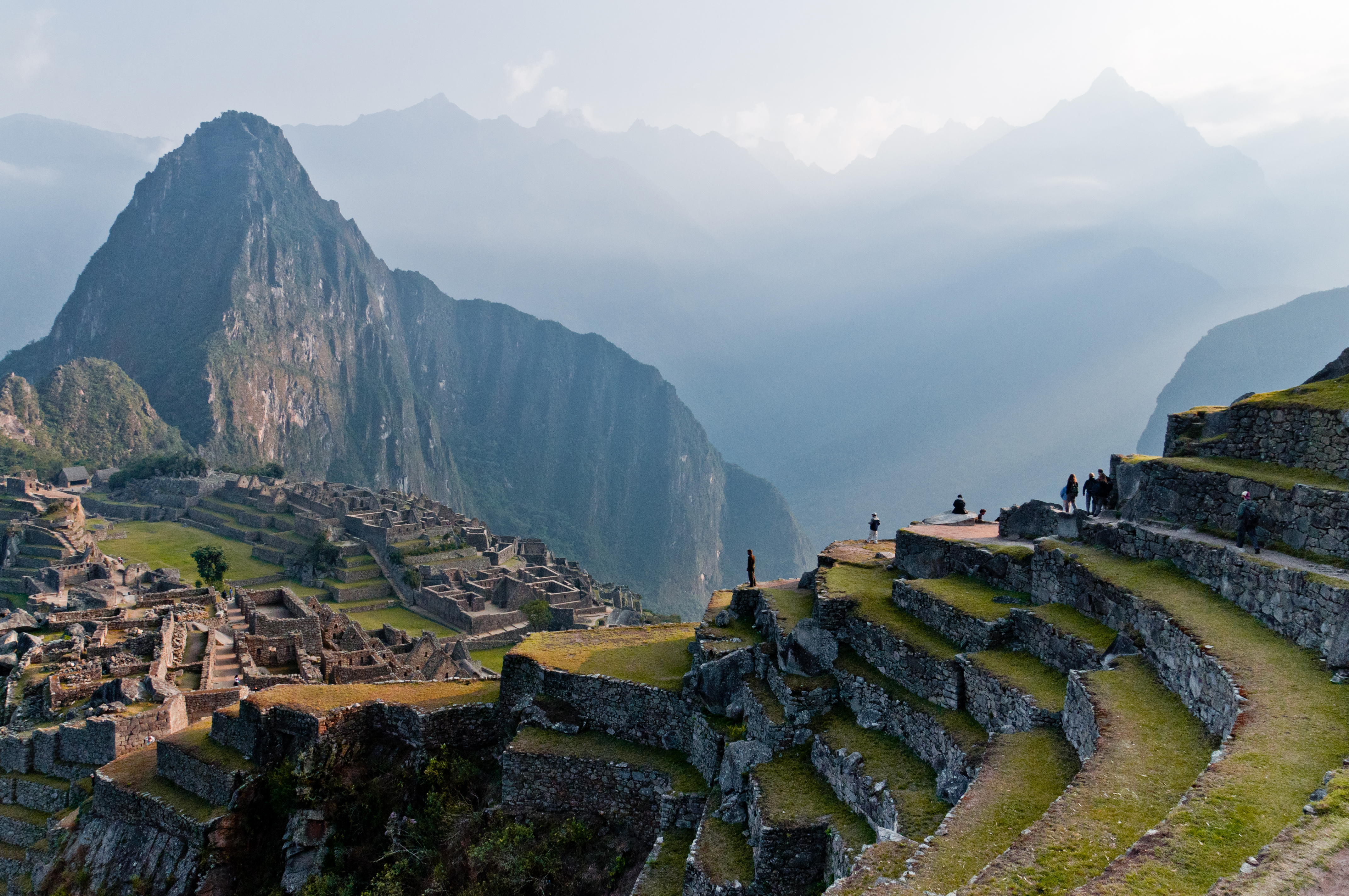 The city of machu picchu, with wan picchu visible on the left part.